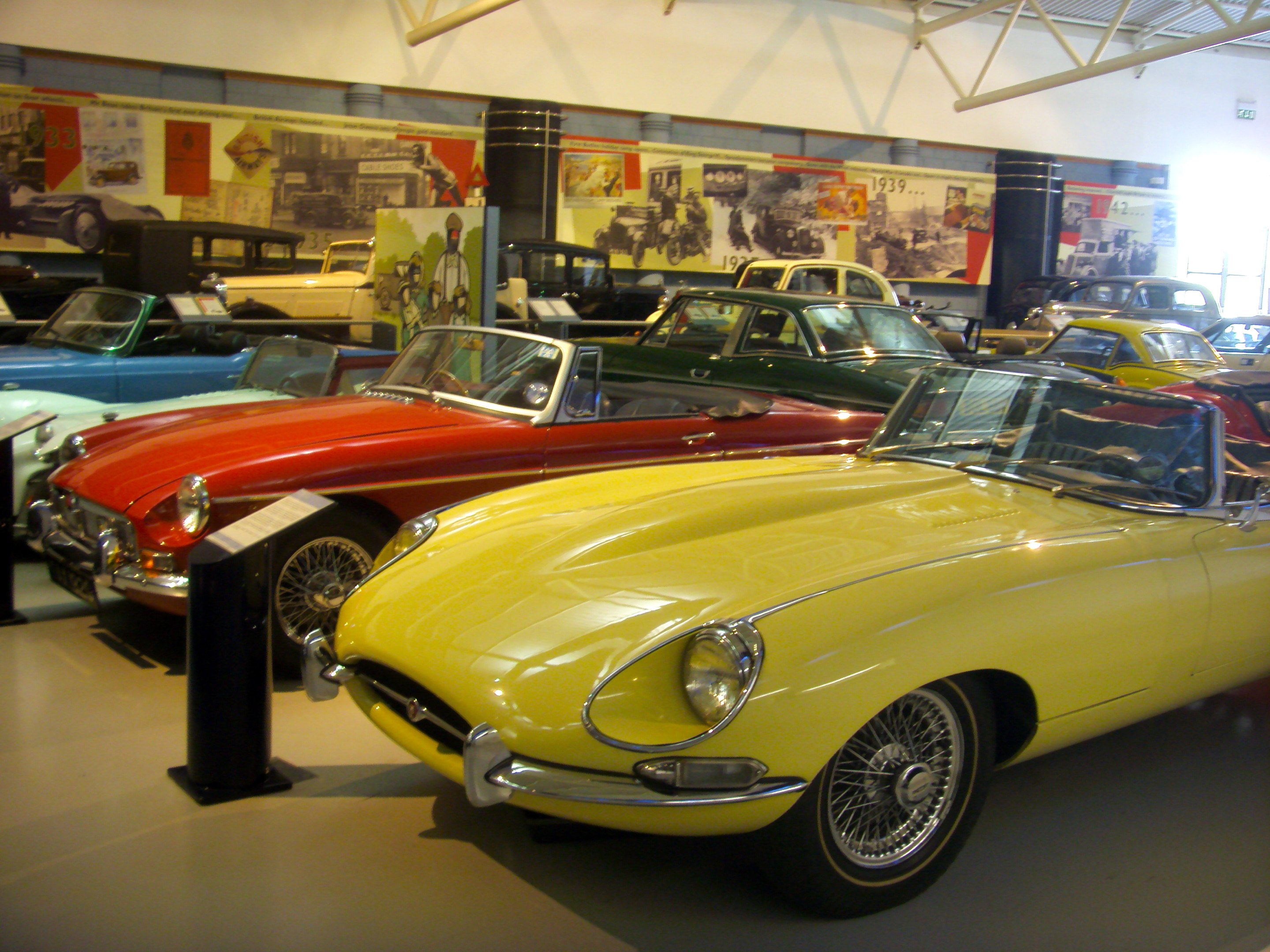 1967 Jaguar E-Type 4.2 Roadster & 1969 MG MGB